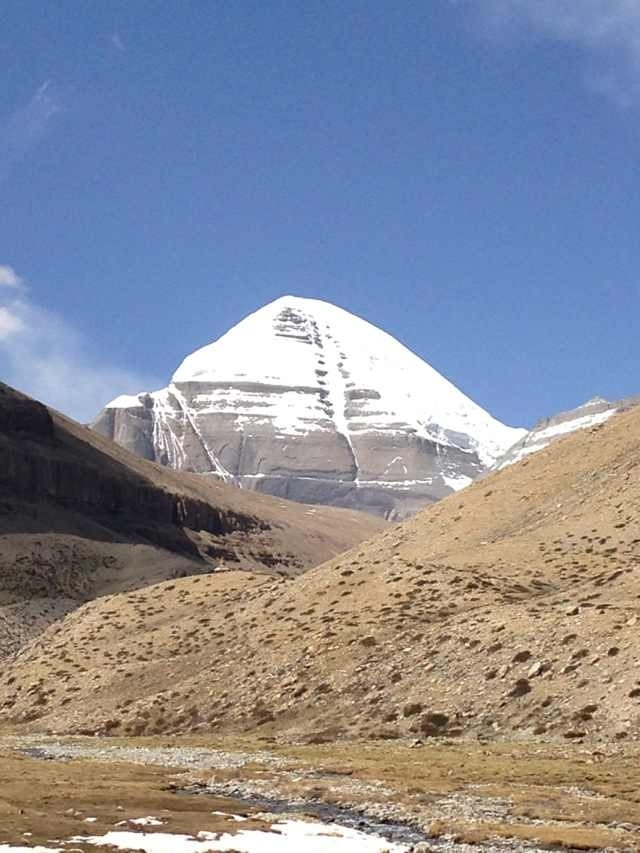 Holy Mountain for Hindu, Buddhism, Jain and Bon Religion.